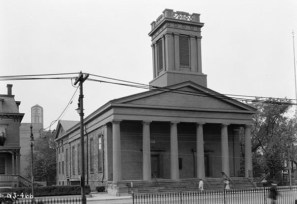 Old Bergen Church, Bergen & Highland Avenues, Jersey City, Hudson County, NJ